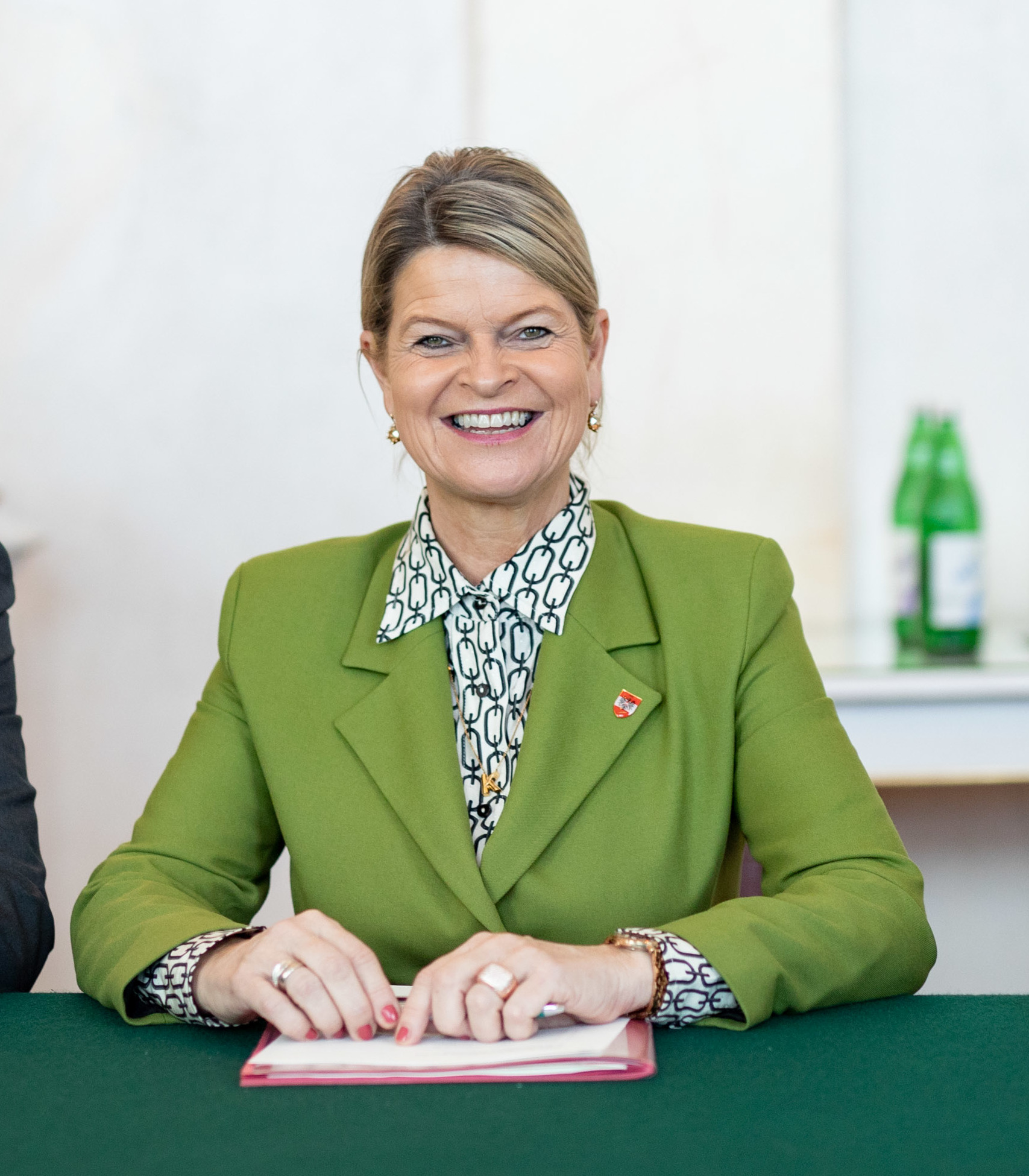 Fotocredit: BKA